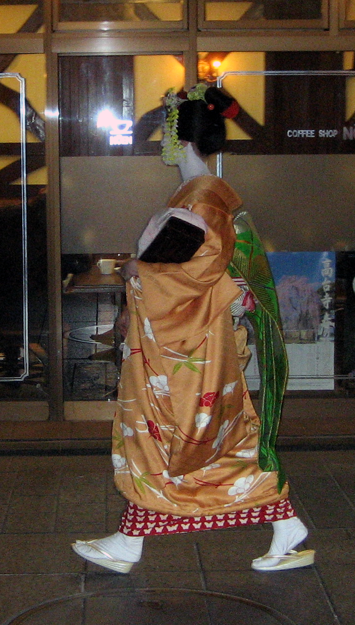 A maiko walks to her next party in Gion Kobu, Kyoto.